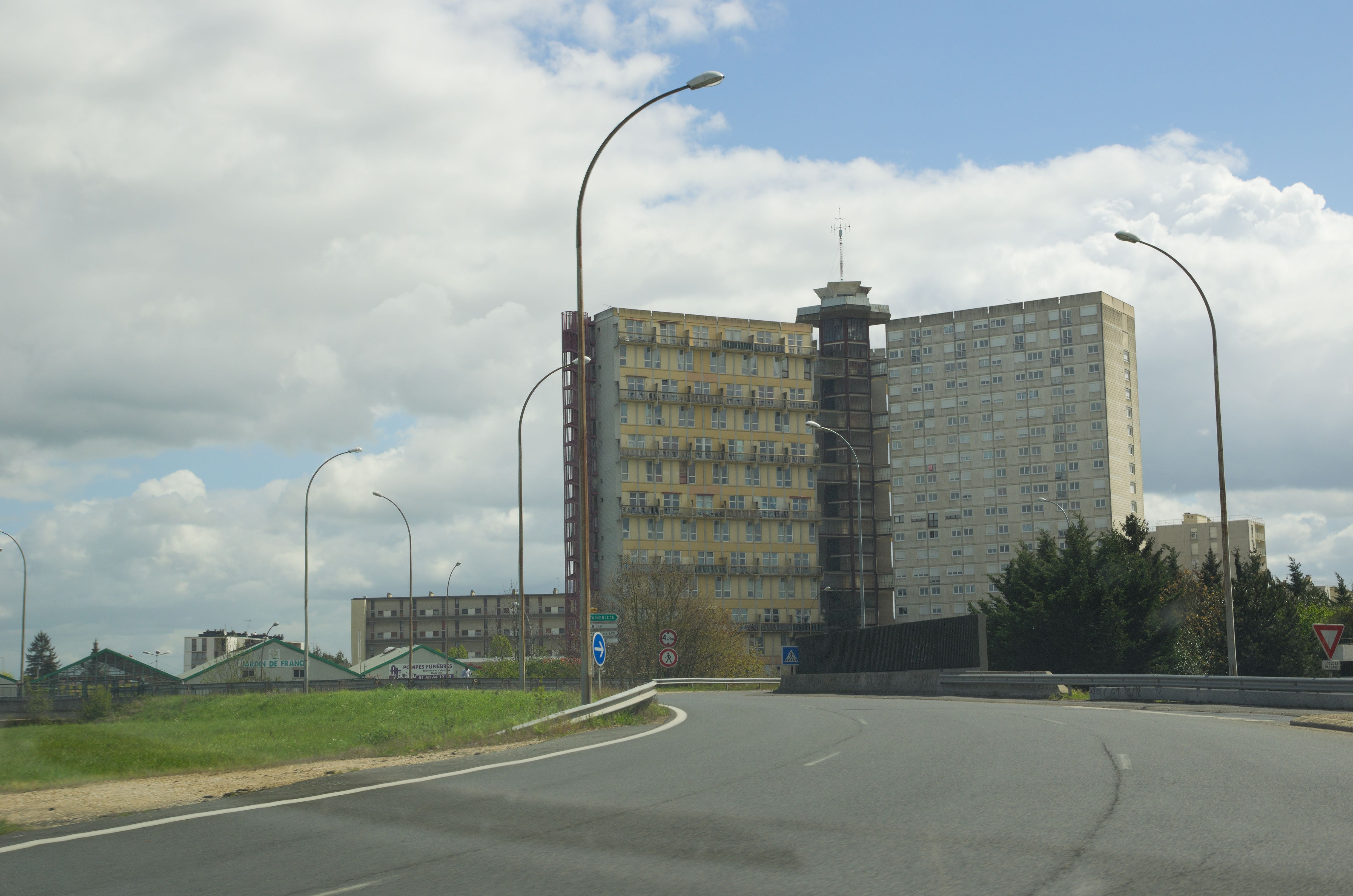 Plein ciel district, in Le Mée-sur-Seine, Melun suburb, Seine-et-Marne, France.